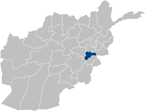 Location map for Lowgar Province in Afghanistan. Original map source: Image:Afghanistan_provinces_blank.png